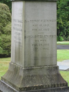 Grave marker of George H. Atkinson at RiverView Cemetery in Portland, Oregon, USA.